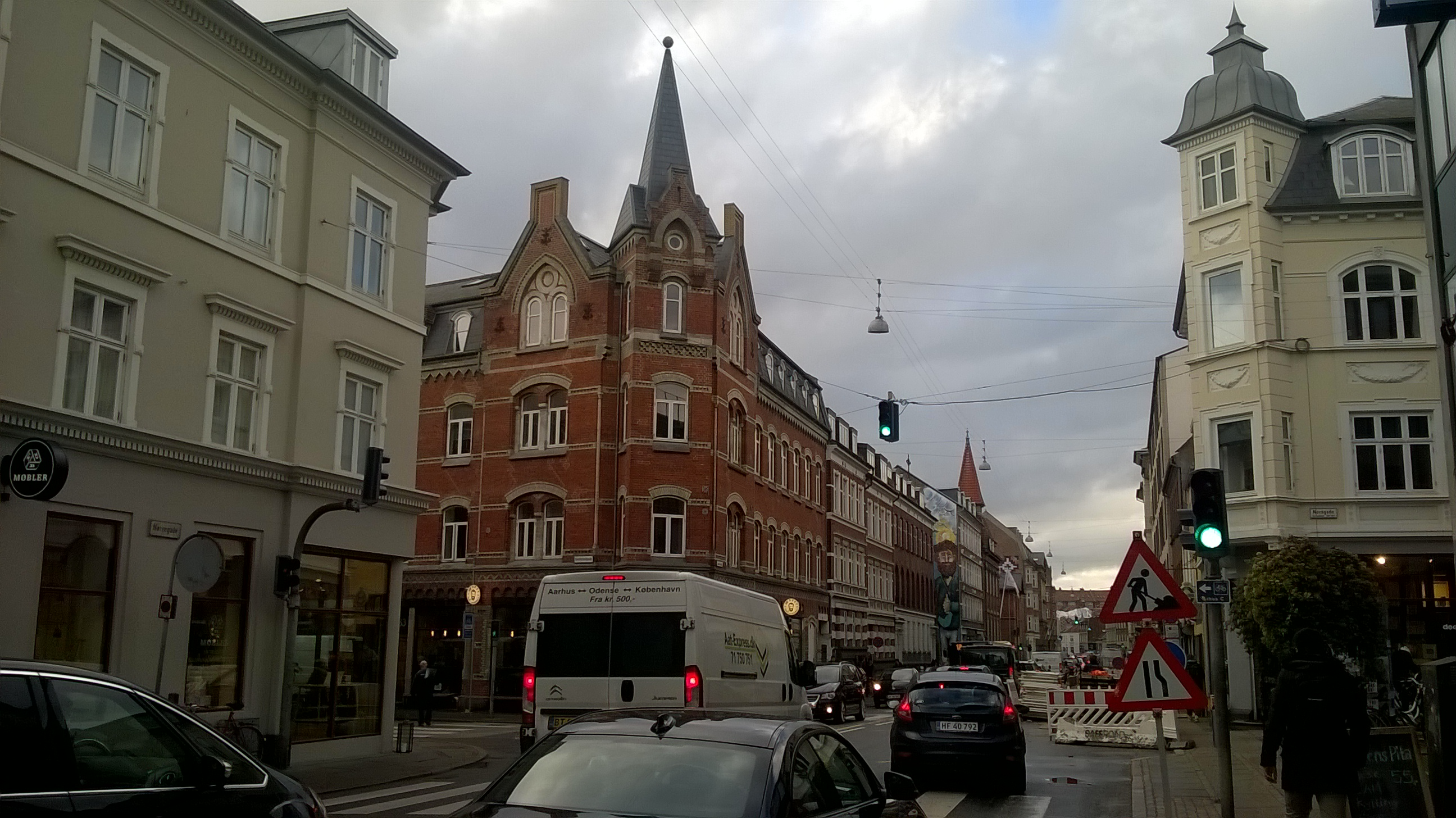 Nørre Allé (Aarhus C)